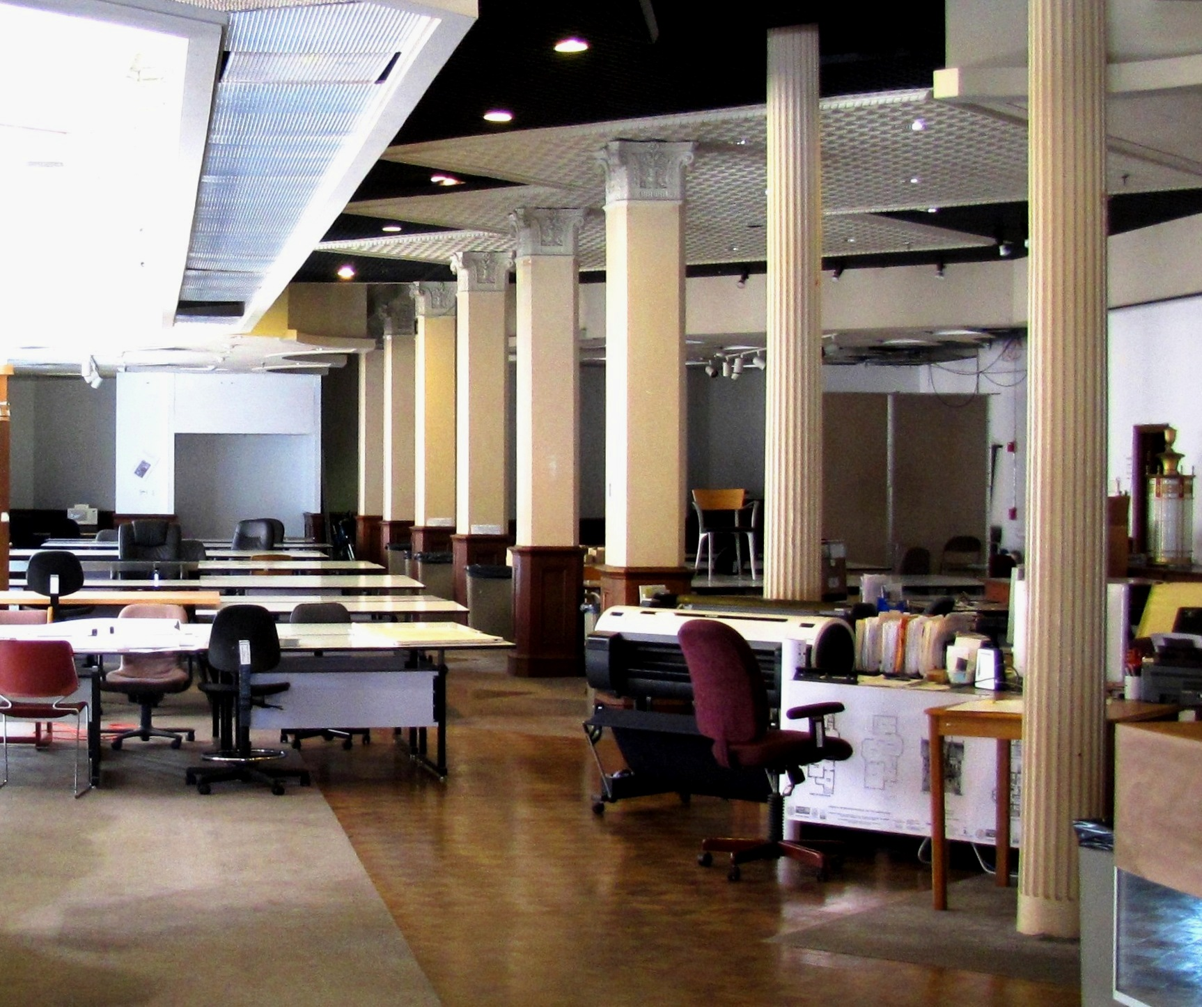 The interior of the Fidelity Building (also called the Cowan, McClung and Company Building) in Knoxville, Tennessee, USA.